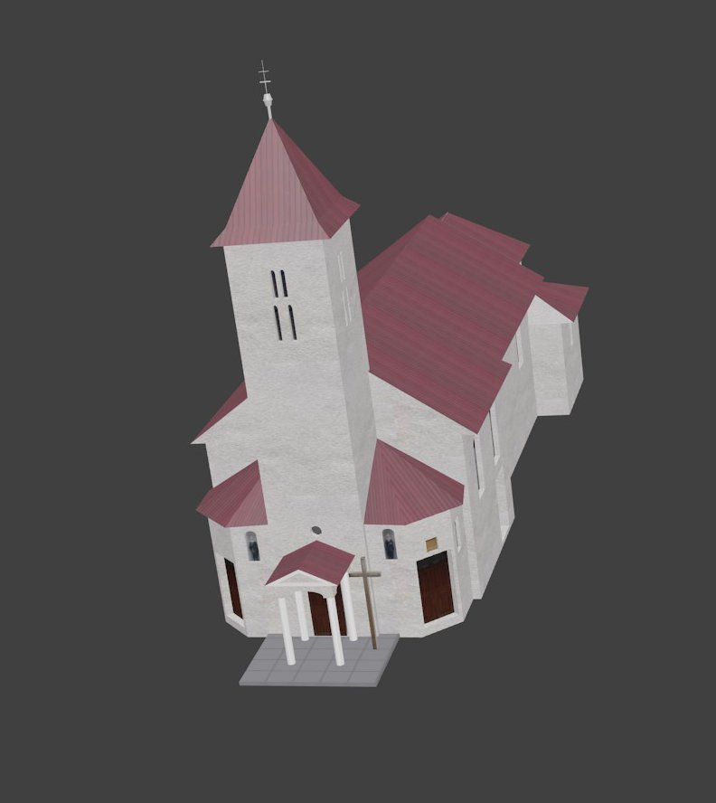 Model of church in Omsenie(Slovakia)